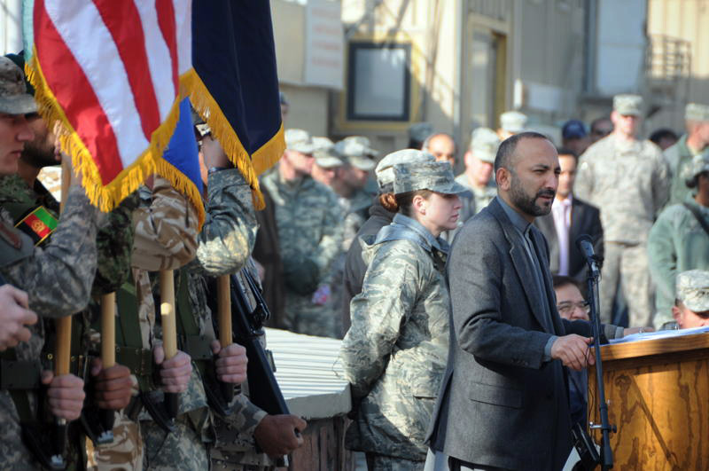 Afghan Minister of the Interior H.E. Minister Atmar address more than 400 coalition Soldiers, Sailors, Airmen, Marines, Department of Defense civilian employees and contractors, and partner nation representatives attending the change of command and the official activation of the NATO Training Mission - Afghanistan at Camp Eggers in Kabul, Nov. 21, 2009. During the ceremony, Lt. Gen. William B. Caldwell, IV, assumed command from Maj. Gen. Richard P. Formica, prior to the activation of the new NTM-A that creates a unified command in charge of building capability and capacity within the Afghan Ministries of Defense and Interior. See more at New NATO command activated in Kabul; continues Afghan training